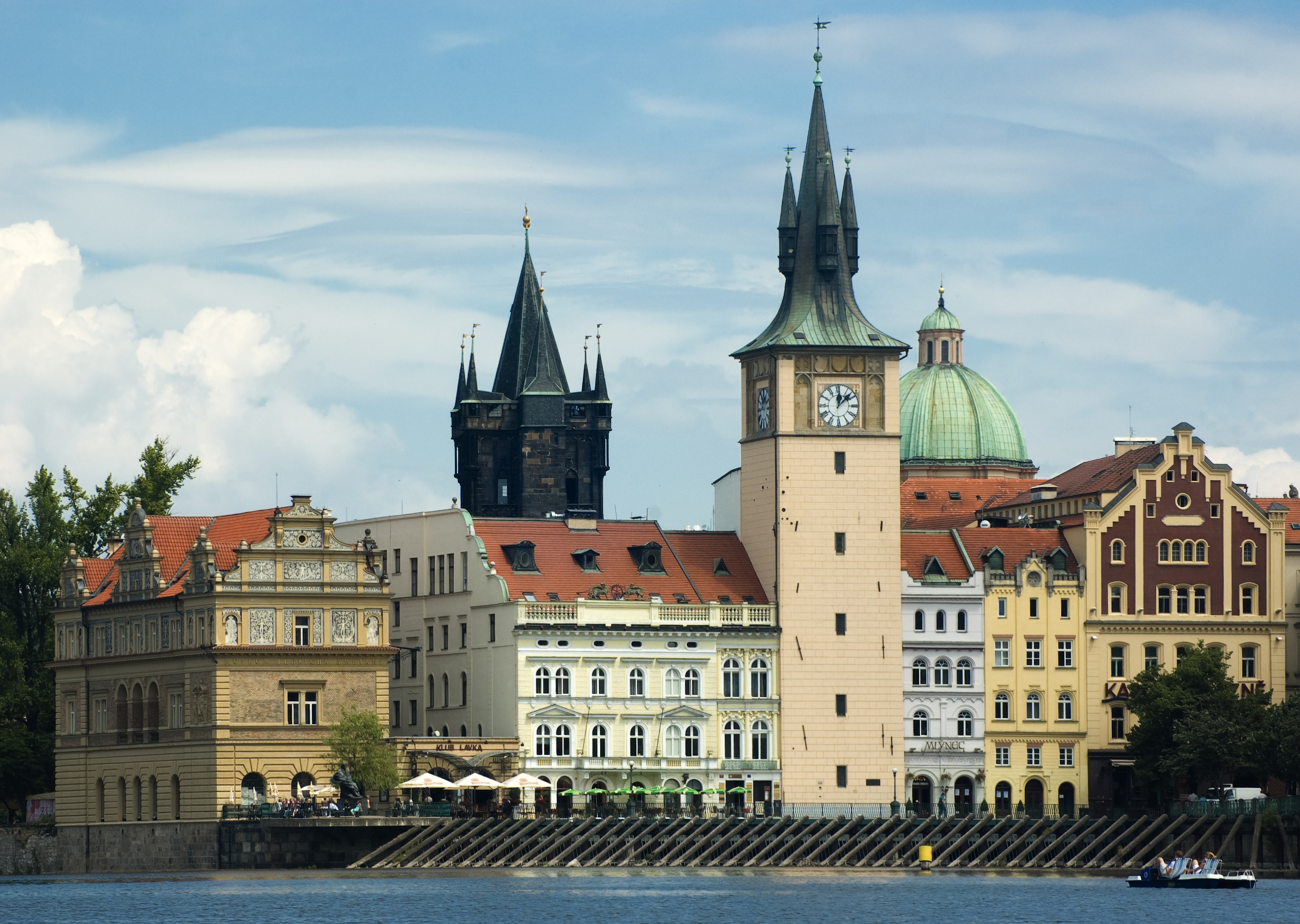 Buildings at the riverside in Prague's Old Town.